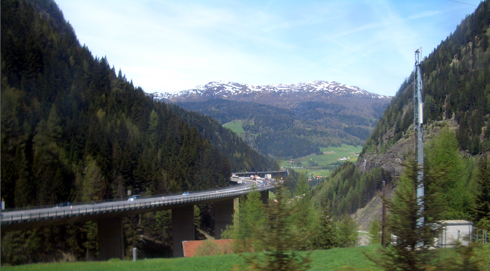 The A13 (Brenner Autobahn), seen from a train, is a relatively short stretch of autobahn (motorway) in Austria linking the city of Innsbruck in the region of Tyrol, to the Italian border where it becomes the A22 The Europabrücke or Europe's bridge, is a 777-m (2,549.2 ft) long bridge spanning the 657-m (2,155.5 ft) Wipp valley just south of Innsbruck, Austria. The A13 Brenner Autobahn passes over this bridge, above the Sill River, forming part of the main route from Austria to Italy across the Alps. Built between 1959 and 1963, it was once Europe's highest bridge, standing 192 m (629.9 ft) high.